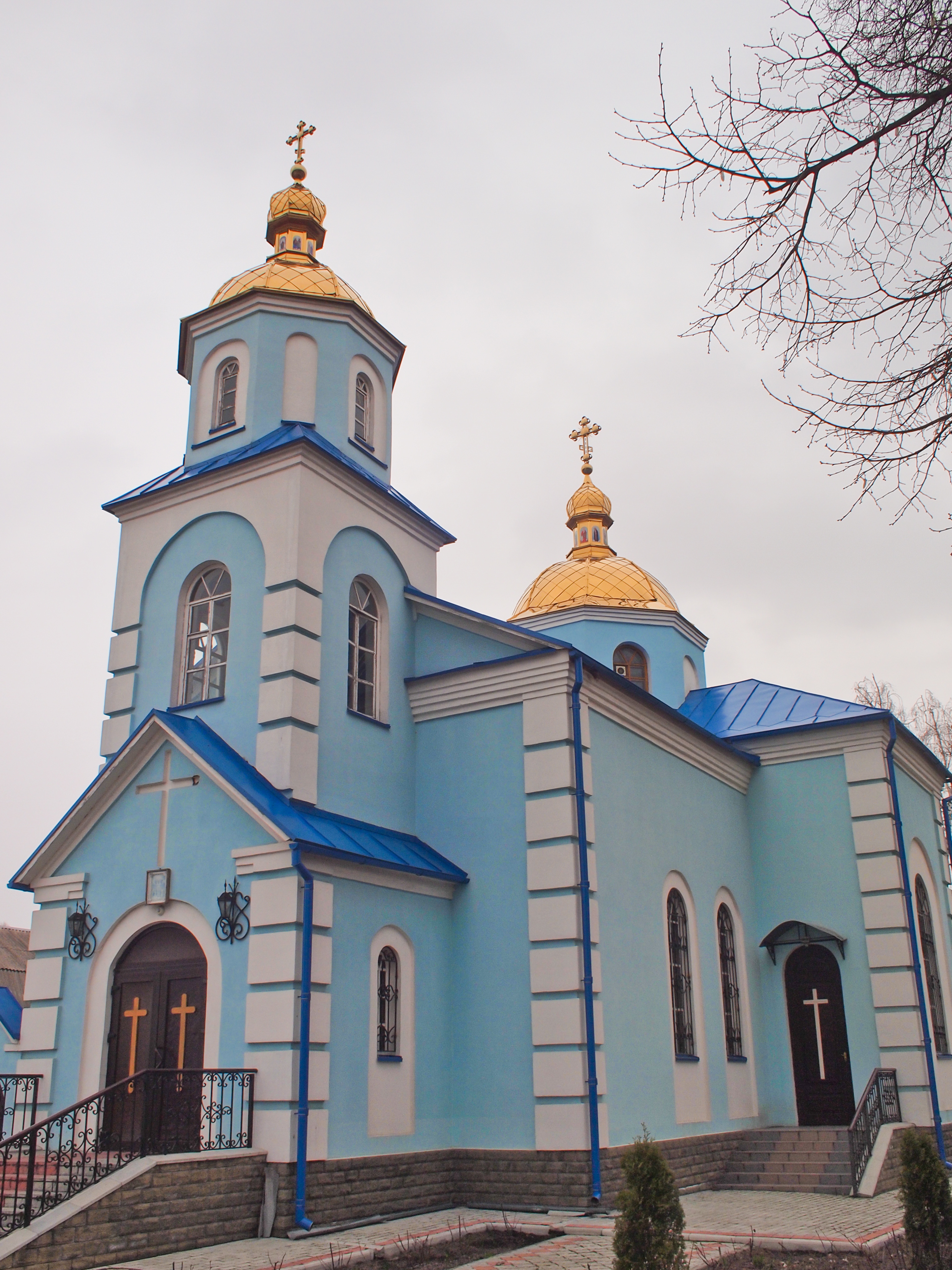 Hora village, Boryspil Raion, Kyiv oblast, Ukraine.